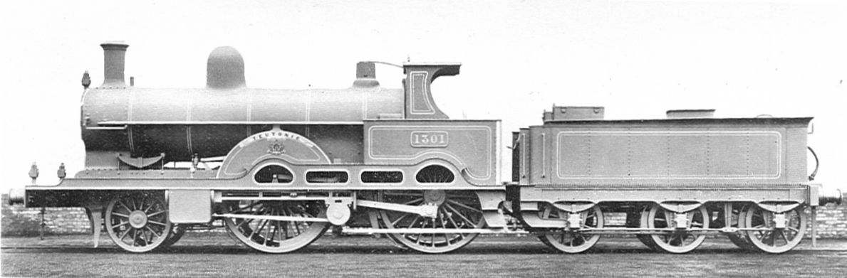 Webb Three-cylinder Compound for the London and North Western Railway LNWR Teutonic class